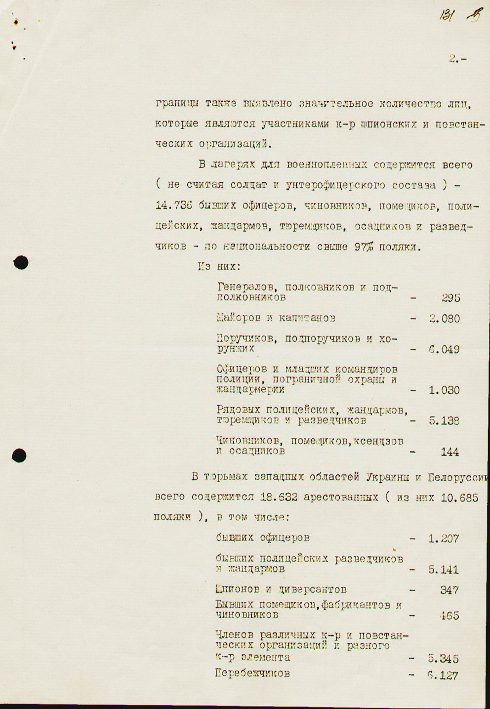 The accepted proposal of Lavrentiy Beria to execute former Polish army and police officers in NKVD prisoner of war camps and prisons, 5 March 1940. A color scan of the original document Location: Russian State Archive of Socio-Political History (RGASPI), ul. Bolshaya Dmitrowka 15, Moscow, signature of the document: F.17, Op. 166 Case 621 p. 130-133 (2003; in the years 1991 - 2003 was stored in the Archive of the President of the Russian Federation in the set of "Closed package No. 1").